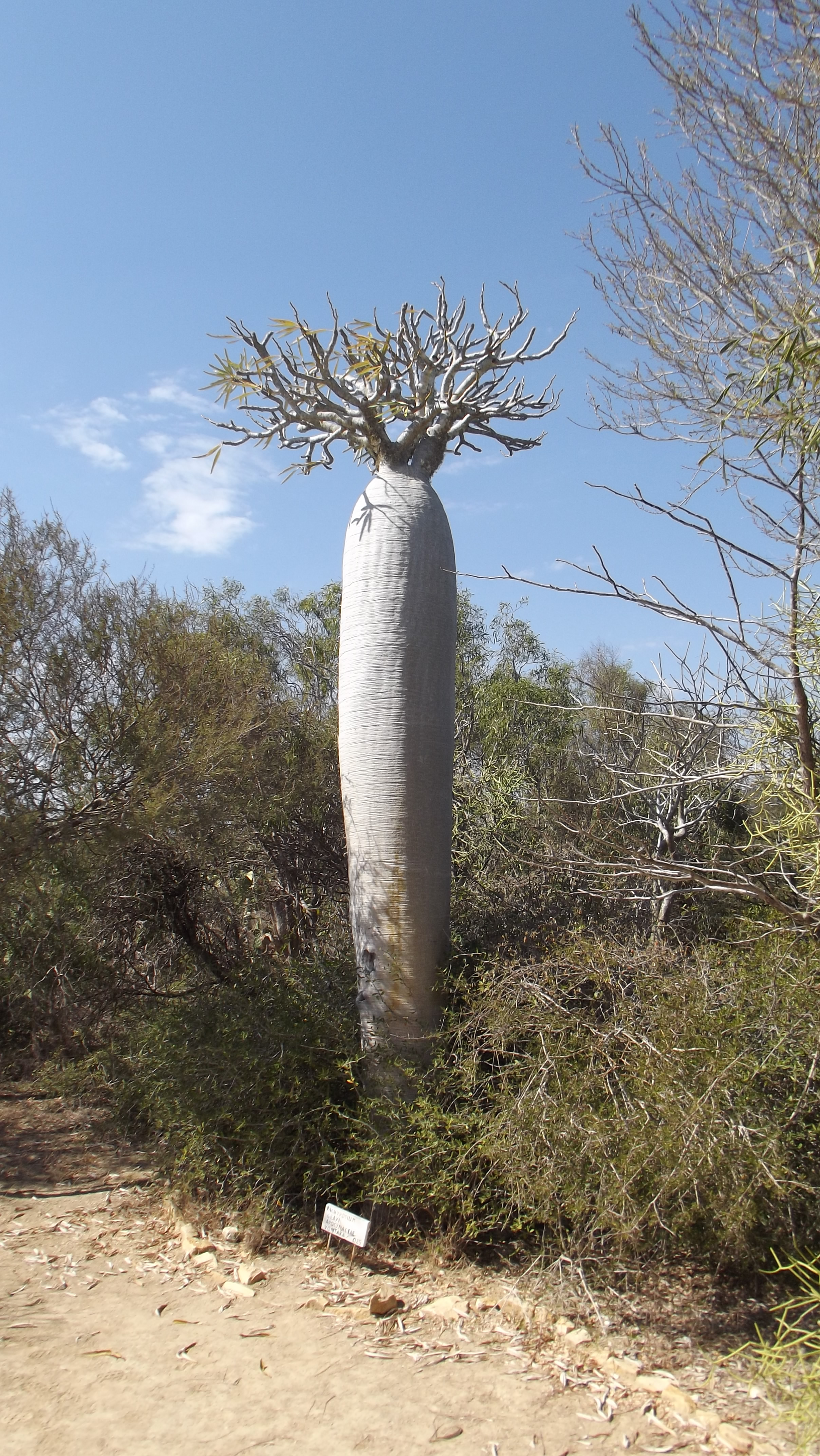 Spiny forest plants in Antsokay Arboretum close to to Toliara by the N7 road.